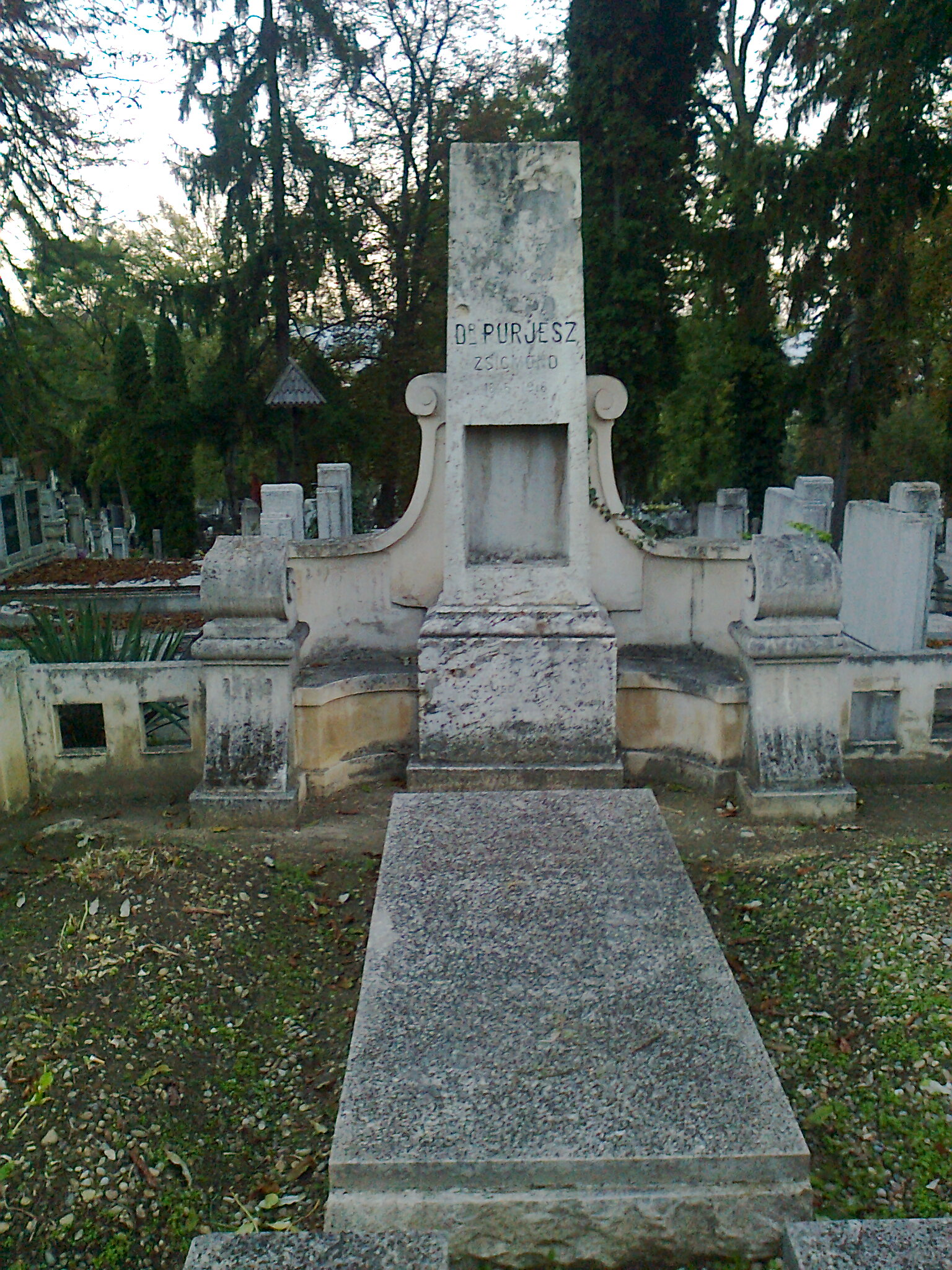 Thomb of Zsigmond Purjesz (1846–1918) physician, university professor